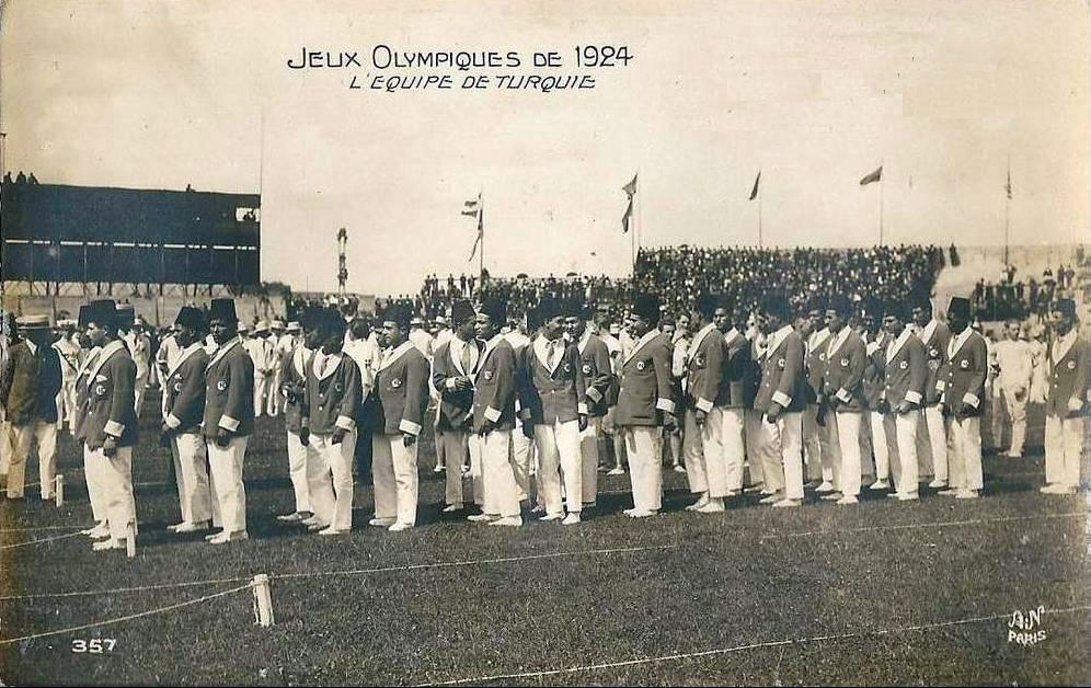 Turkey team at the 1924 Summer Olympics in Paris.